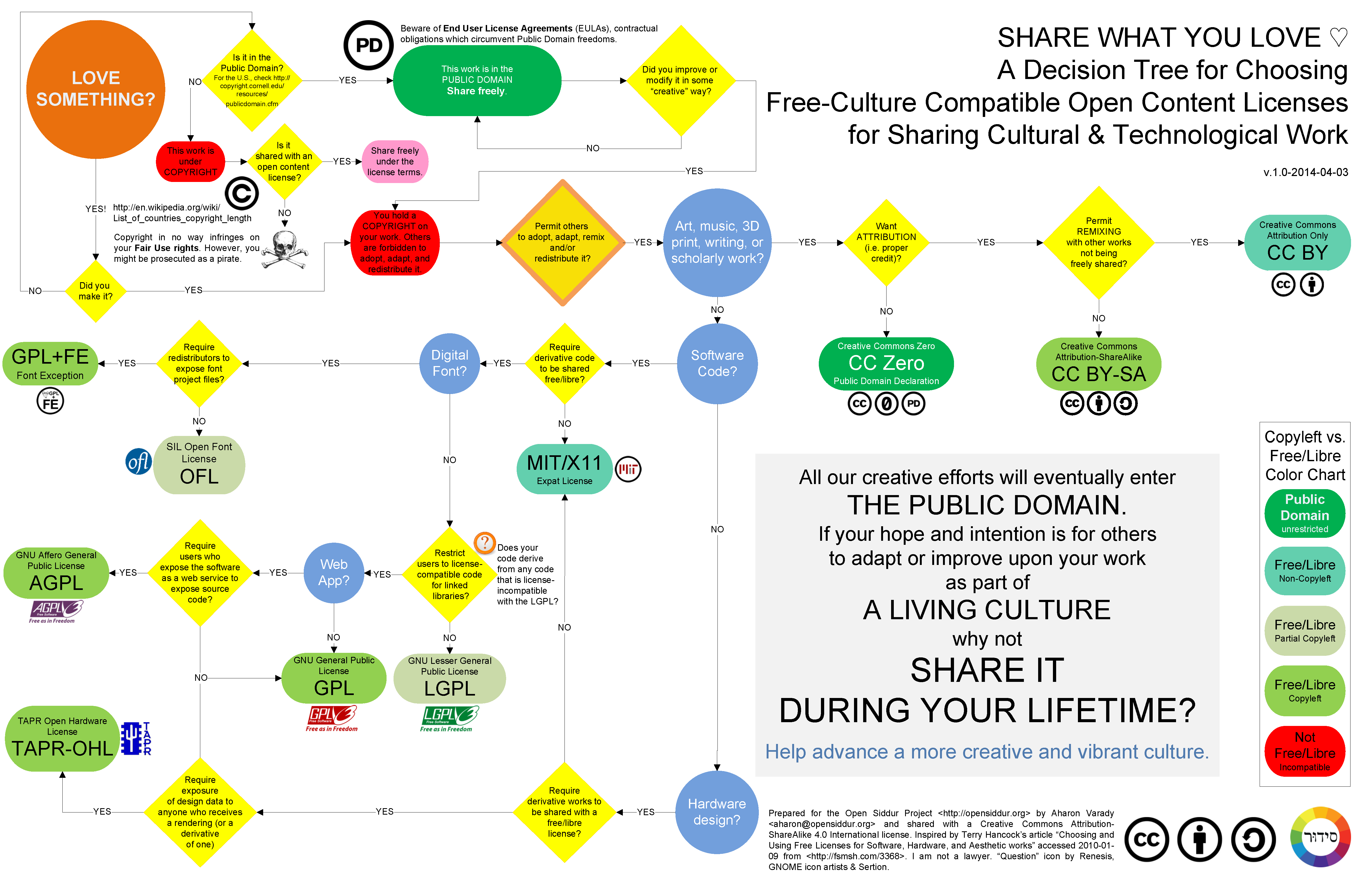 This decision tree helps users choose the right free/libre license for the type of cultural or technological work they wish to share: software, hardware, art, music, or scholarly work.